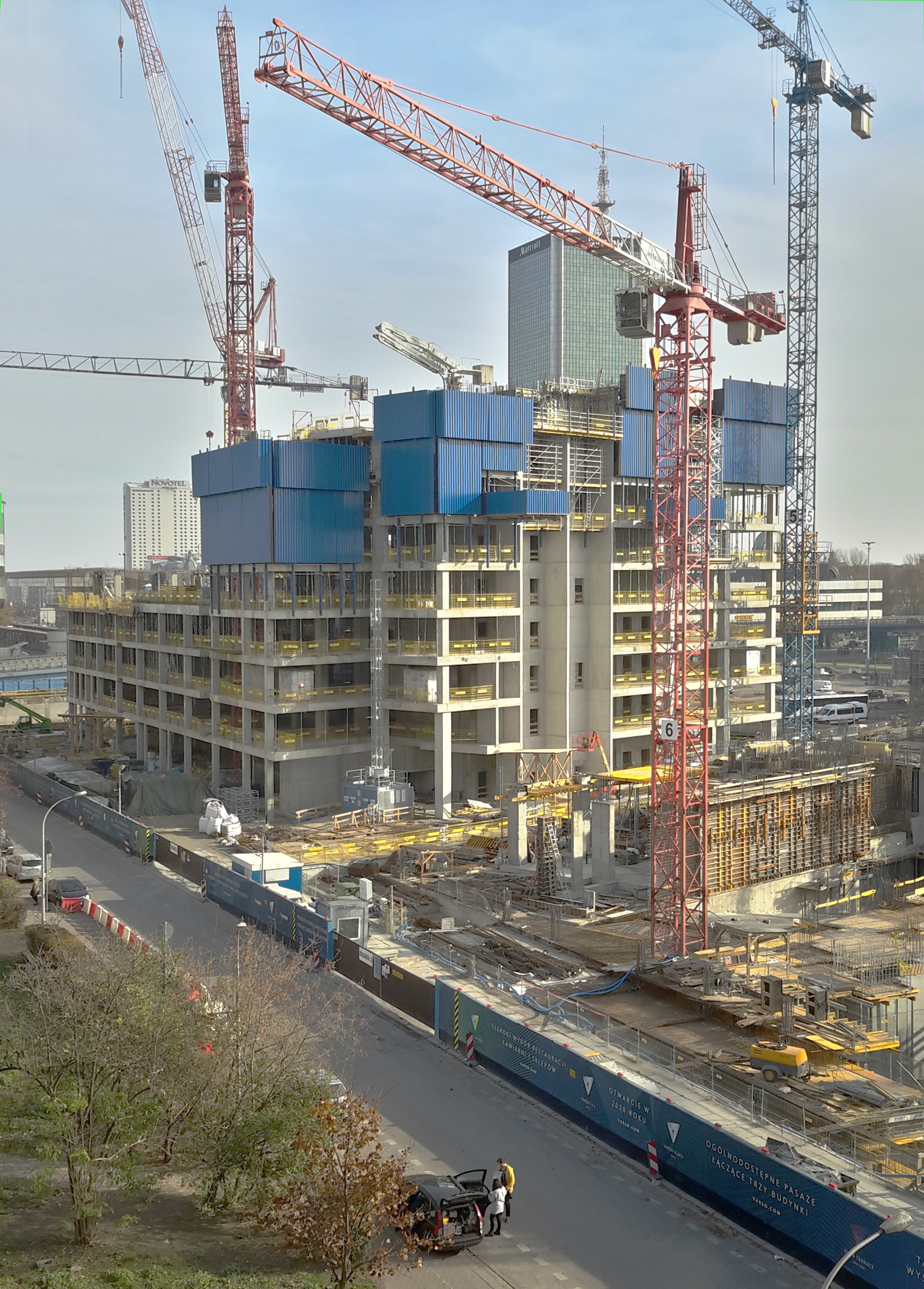 plac budowy Varso 1 listopada 2018